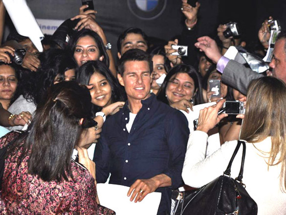 Special Screening of 'Mission Impossible - Ghost Protocol'